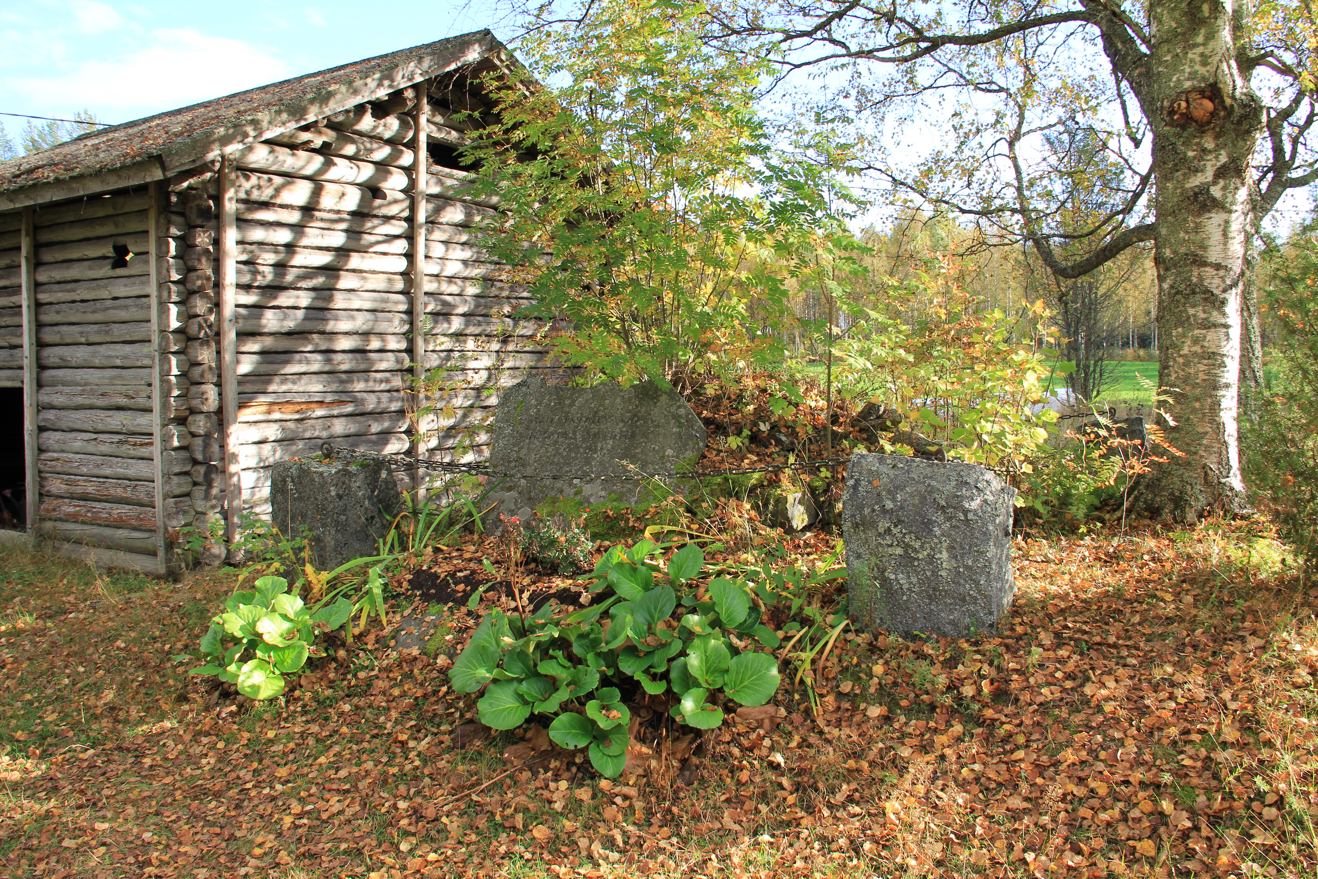 Hiski Salomaa birthplace memorial stone, Kangasniemi, Finland. - Memorial stone unveiled in 1979.